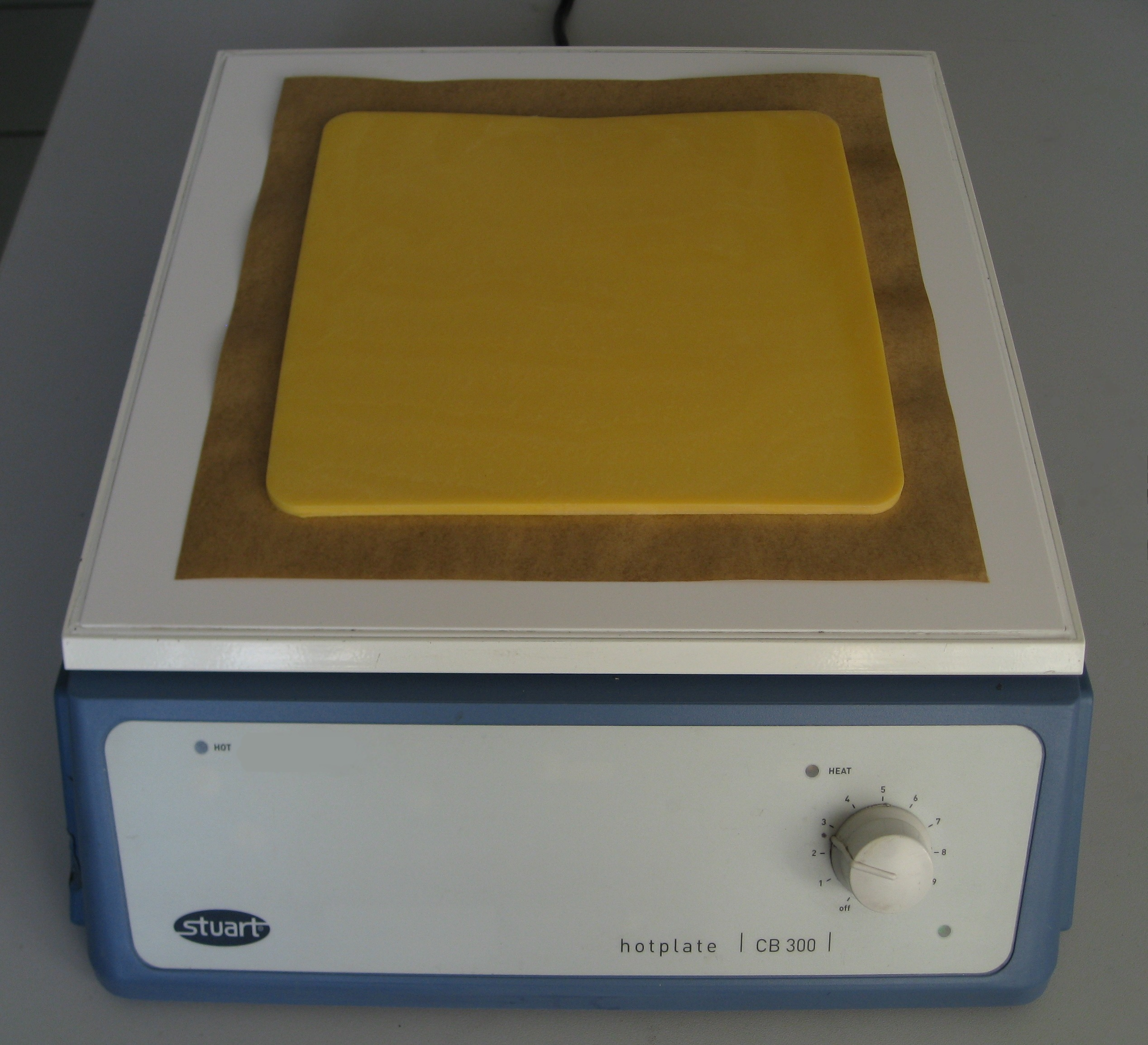 Analog hotplate, 300 x 300 mm ceramic surface for resistance to chemical attack, maximum surface temperature 450 °C. Softening to about 80 °C a plate of an injected thermoplastic polymer material (4 mm thick, placed on non-stick silicone paper), to facilitate cutting for sampling.